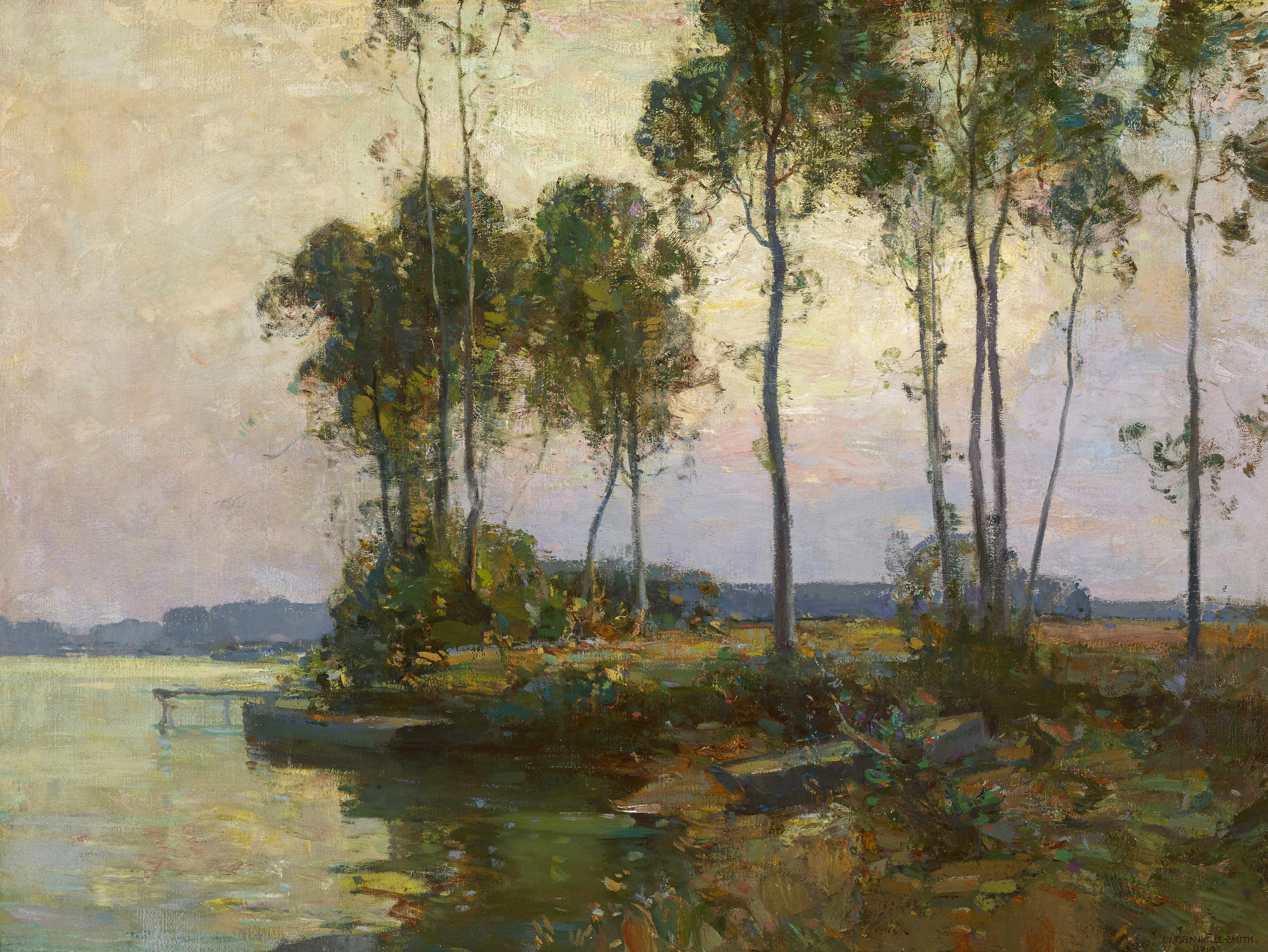 Sentinel Trees', Bellport, Long Island by Walter Granville-Smith, 1914, oil canvas, 37 3/8 x 49 1/4 inches (94.9 x 125.1 cm)